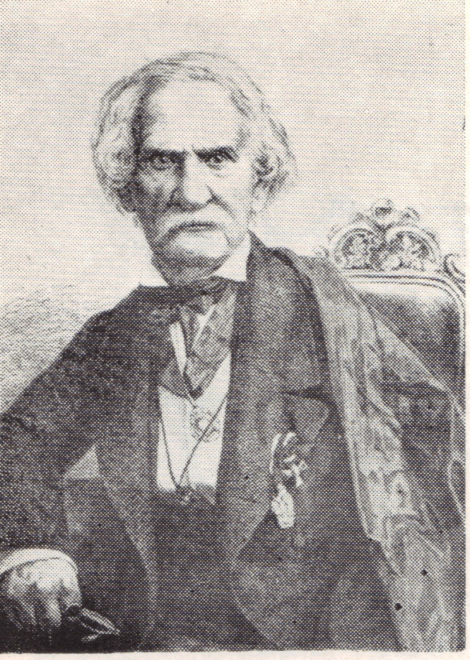 Romanian writer Gheorghe Asachi